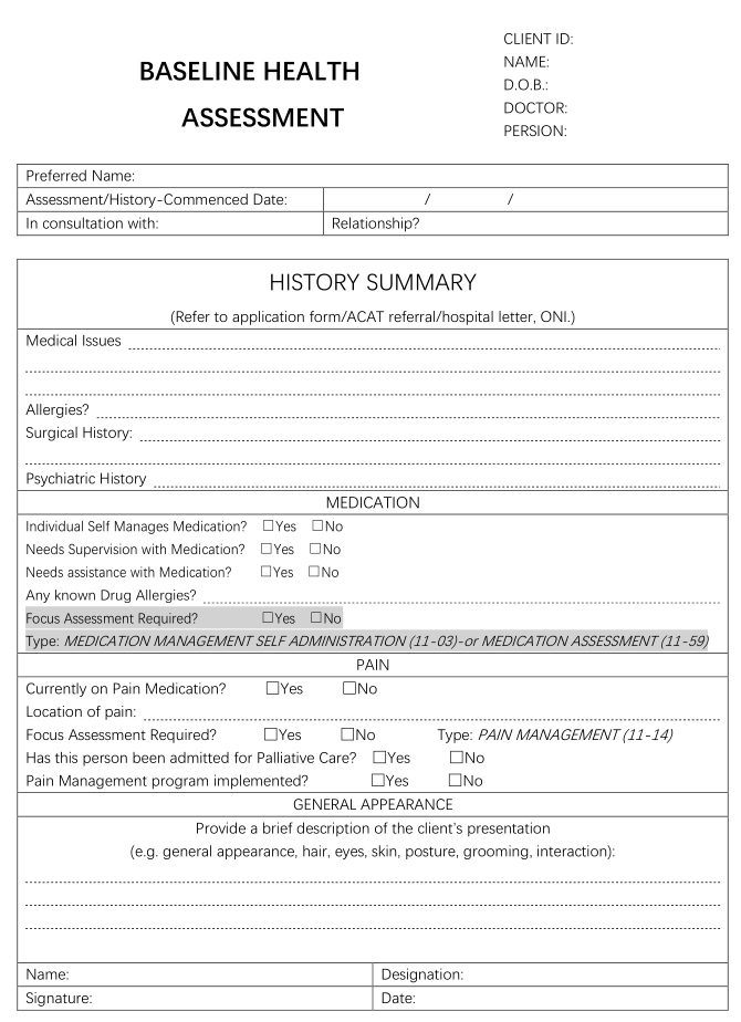 Figure 2-1. A sample nursing assessment form for an Australian residential aged care home.